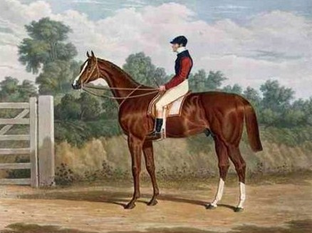 'Elis', the Winner of the Great St. Leger Stakes at Doncaster, 1836 by John Frederick Herring Snr (1795-1865). Artist dead for 147 years.